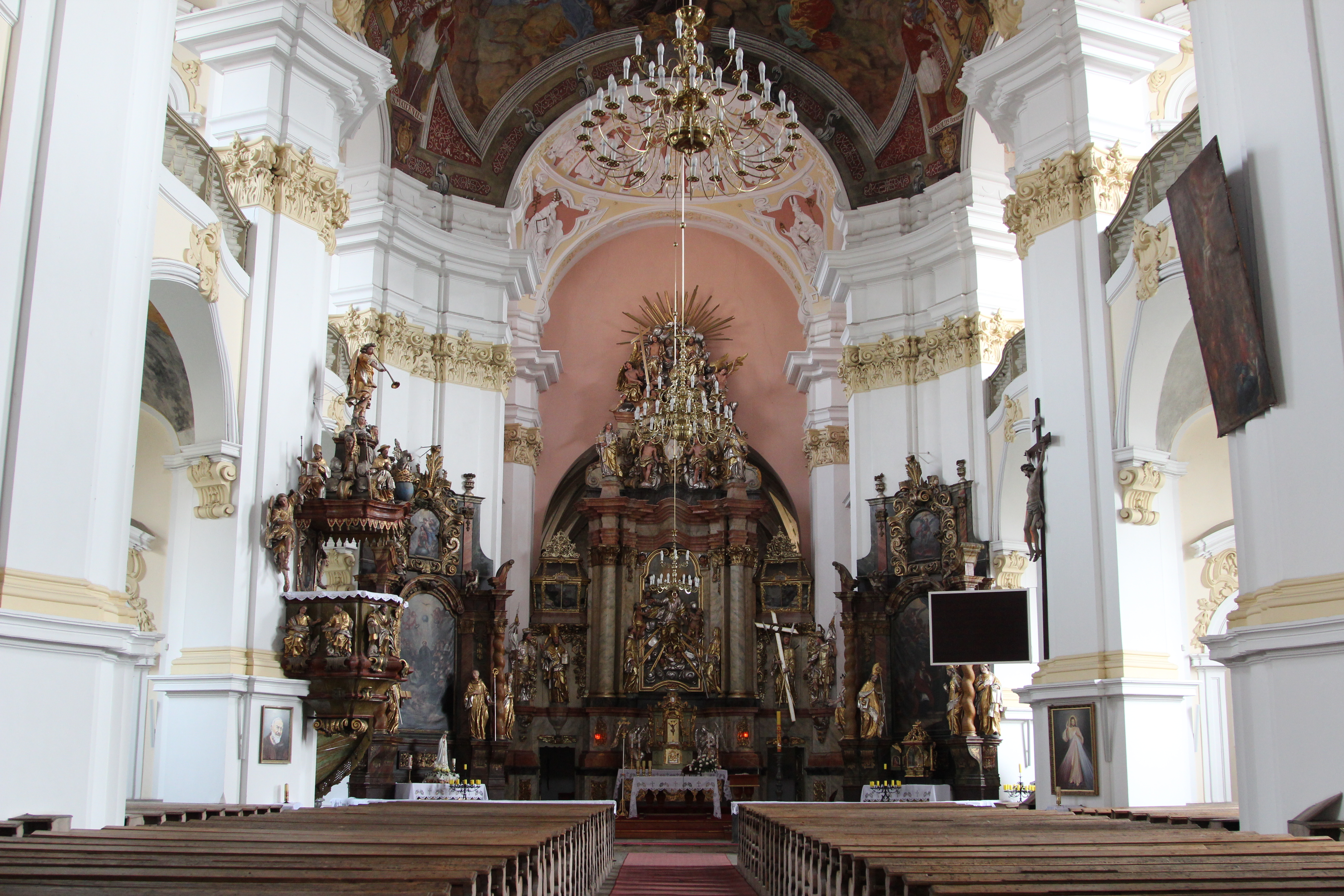 Church of Saint Mary and Saint Maternus in Lubomierz